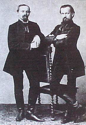 Picture of Franz (left) and Karl Doppler. Shoot 18th century